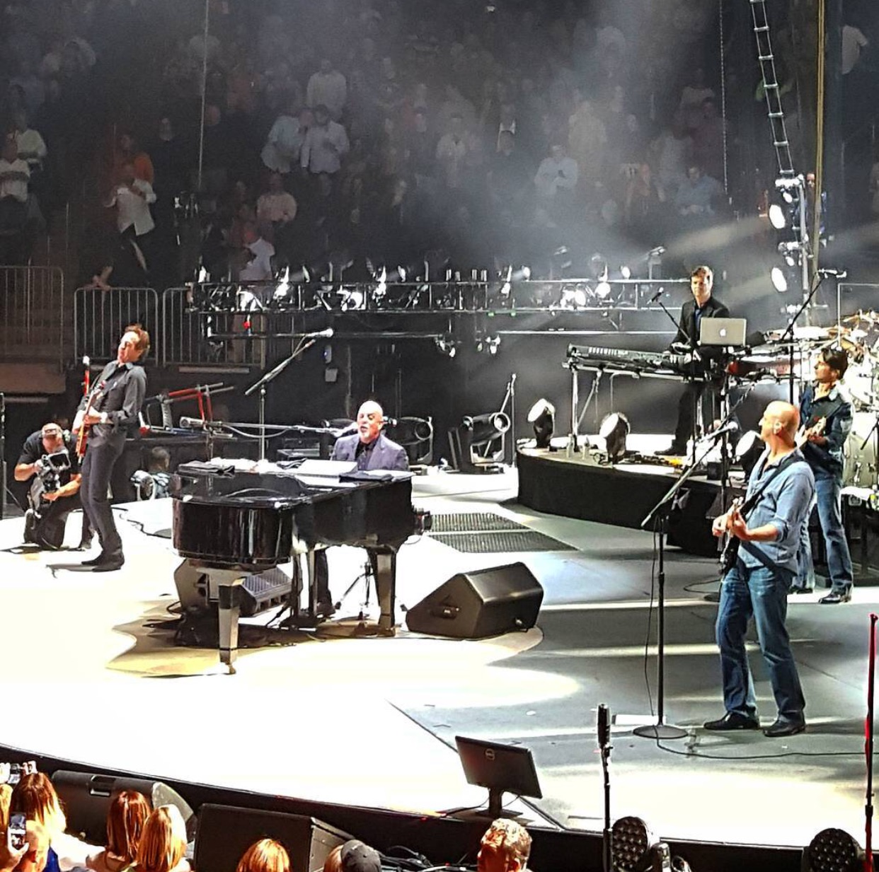 Mike DelGuidice